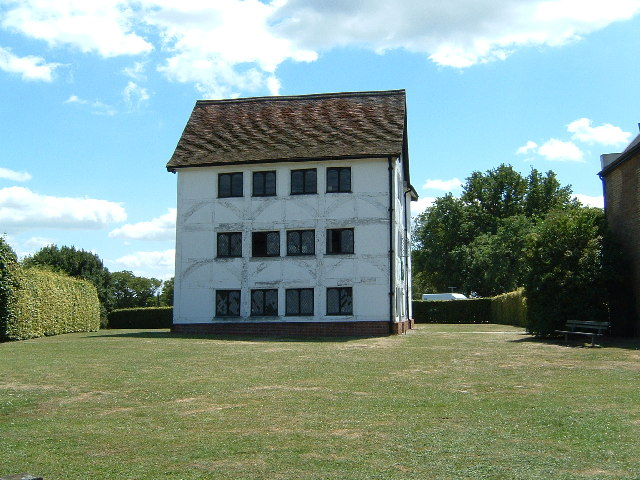 Queen Elizabeth's Hunting Lodge. Actually built for Henry VIII. This is the view from the north, taken from the route of the London Loop.